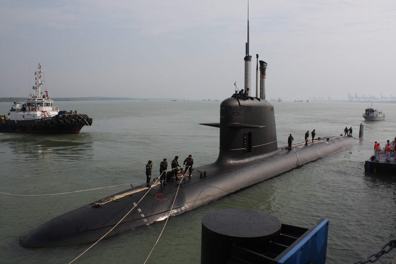 Malaysia's first Scorpene-class diesel-electric submarine docked at its Naval base in Port Klang on the outskirts of Kuala Lumpur on September 3, 2009.